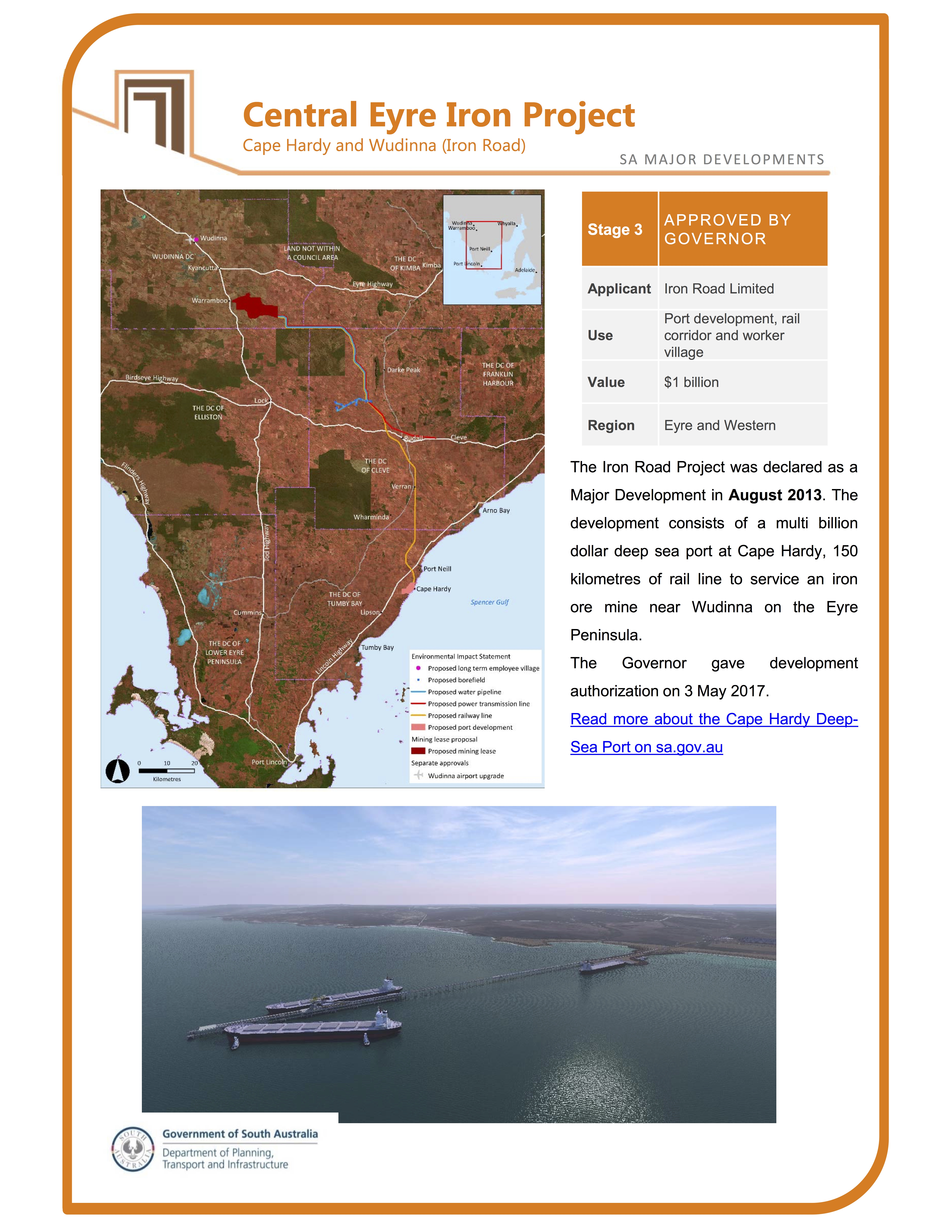 This is an image of a page on the South Australian Government's Planning Portal concerning the Central Eyre Iron Project. It shows a map of Eyre Peninsula with details of the locations of infrastructure associated with the project, details of its approval status and a photo of the proposed Cape Hardy deep sea port. CC BY 3.0 AU. At the foot of the parent web page is: “This work is licensed under a Creative Commons Attribution 3.0 Australia Licence”. (This is the default CC licence adopted by Australian governments under the Australian Governments Open Access and Licensing Framework (AusGOAL).)